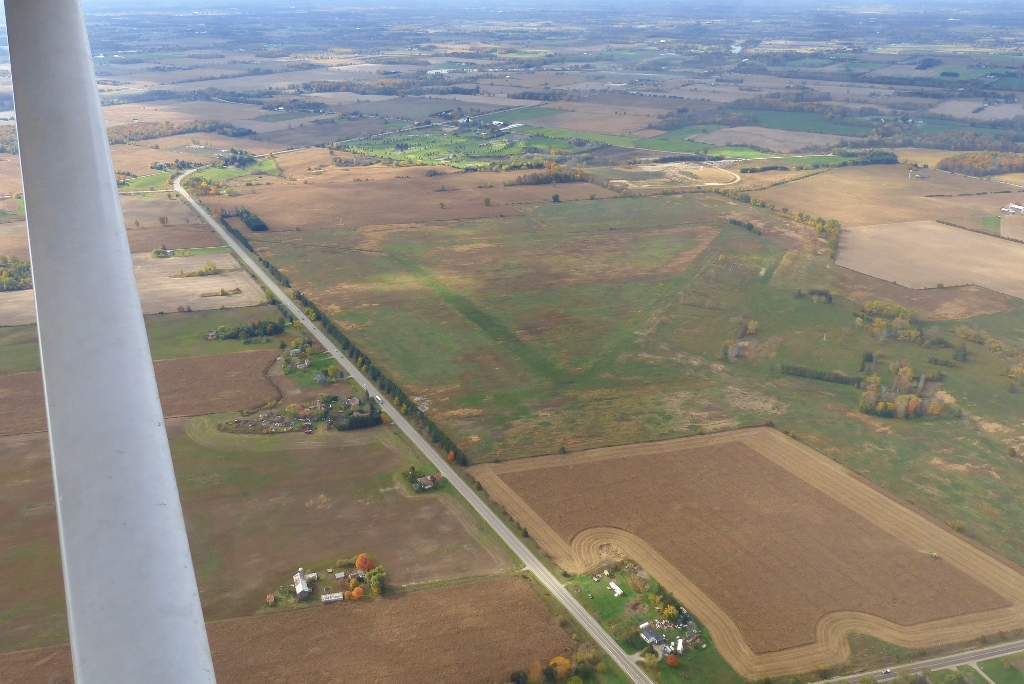 The World War II Royal Canadian Air Force airfield at Burtch, Ontario, Canada, as it was in November 2016. The airfield was built in 1941 as part of the British Commonwealth Air Training Plan. This view, from about 1,000' above ground level, has the camera pointing to southwest. The triangle pattern of the runways is clearly visible, with the intersection of runway 25 (on the right) and 20 (left) at the centre of the frame. Runway 30 is at the top of frame. The hangar and camp area is marked by lines of trees at the right of frame. This airfield was restored to farmland by the Government of Ontario between 2009 and 2015, and then given to a First Nations band in settlement of a land claim. The photograph was taken from the left front seat of Cessna 172 C-GBSL, from a height of 300 metres above ground level. Pilot in command, in the right seat, was Aaron Webb. The white "pole" on the left side of the frame is the left wing strut.